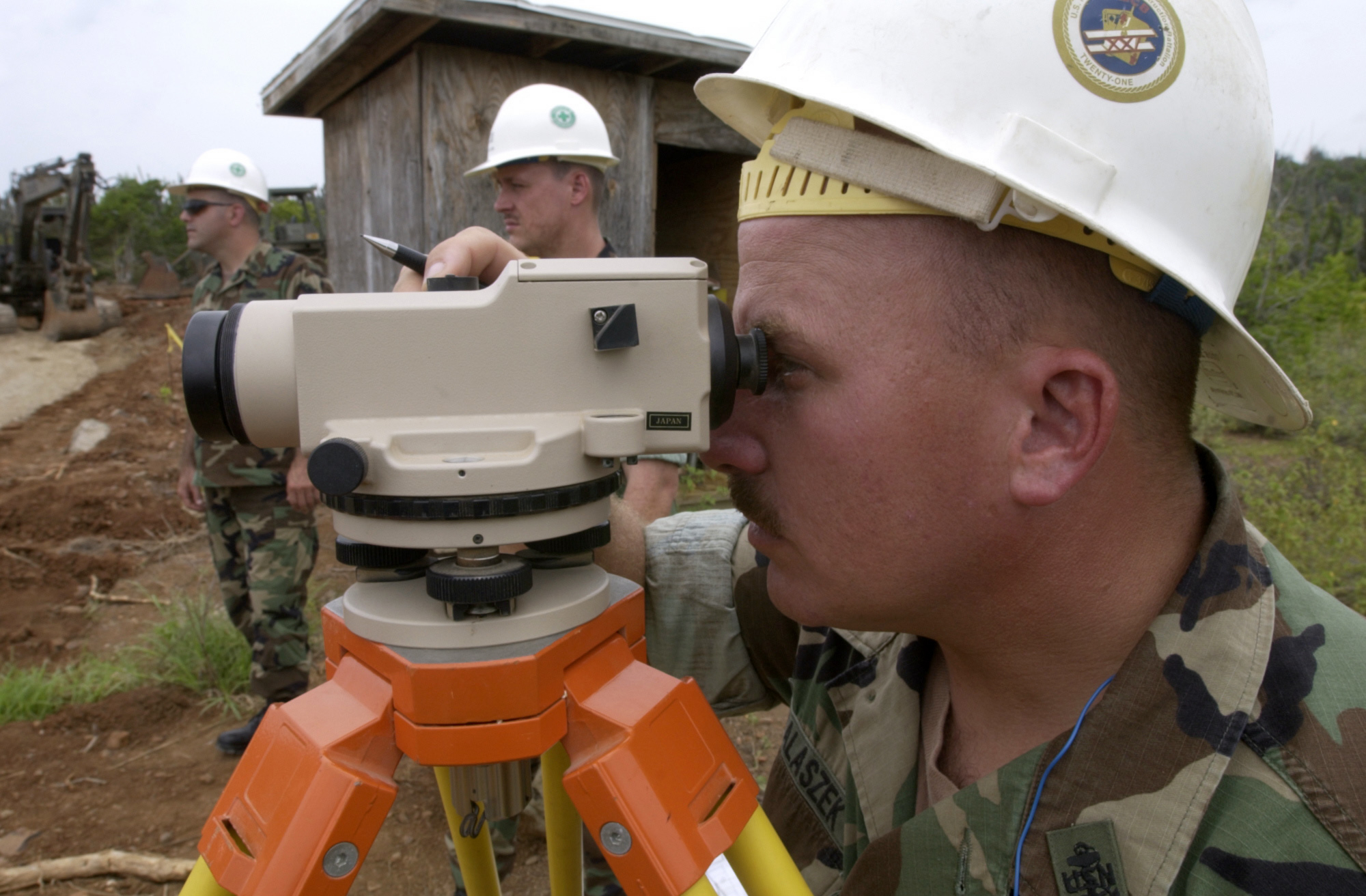 Naval Station Guantanamo Bay, Cuba (Apr. 28, 2003) -- Chief Equipment Operator Chris Walaszek uses a dumpy level to survey the topography of the bus turn across the street from Camp Delta at Naval Station Guantanamo Bay. Chief Walaszek is assigned to Naval Mobile Construction Battalion Twenty One (NMCB-21), a reserve unit based in Lakehurst, N.J., deployed to Guantanamo Bay for one year. U.S. Navy photo by Journalist Seaman David P. Coleman. (RELEASED)